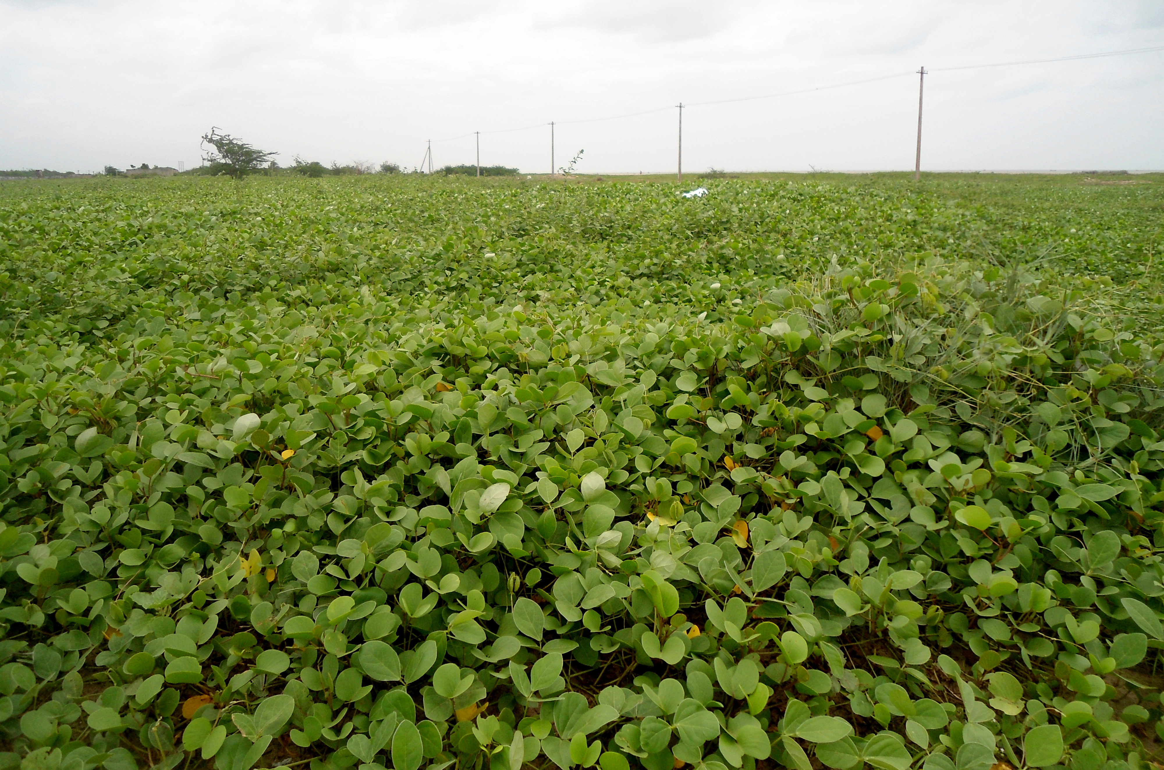 Beach Morning Glory (Ipomoea pes-caprae) at Kakinada beach, Andhra Pradesh